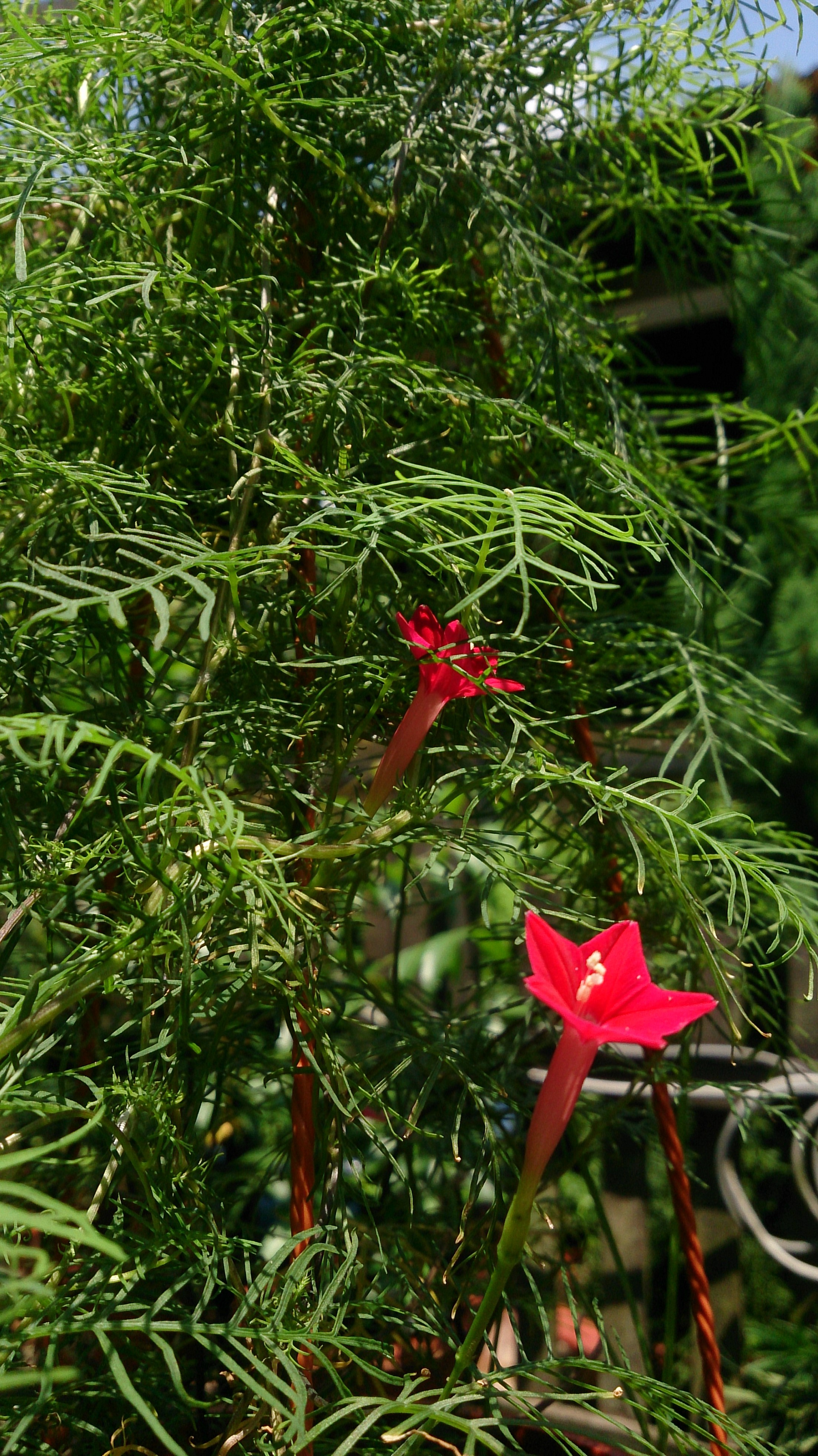 Ipomoea quamoclit. Common names: Cypress Vine. Cardinal Climber. Star Glory. Origin: Mexico to Tropical America.